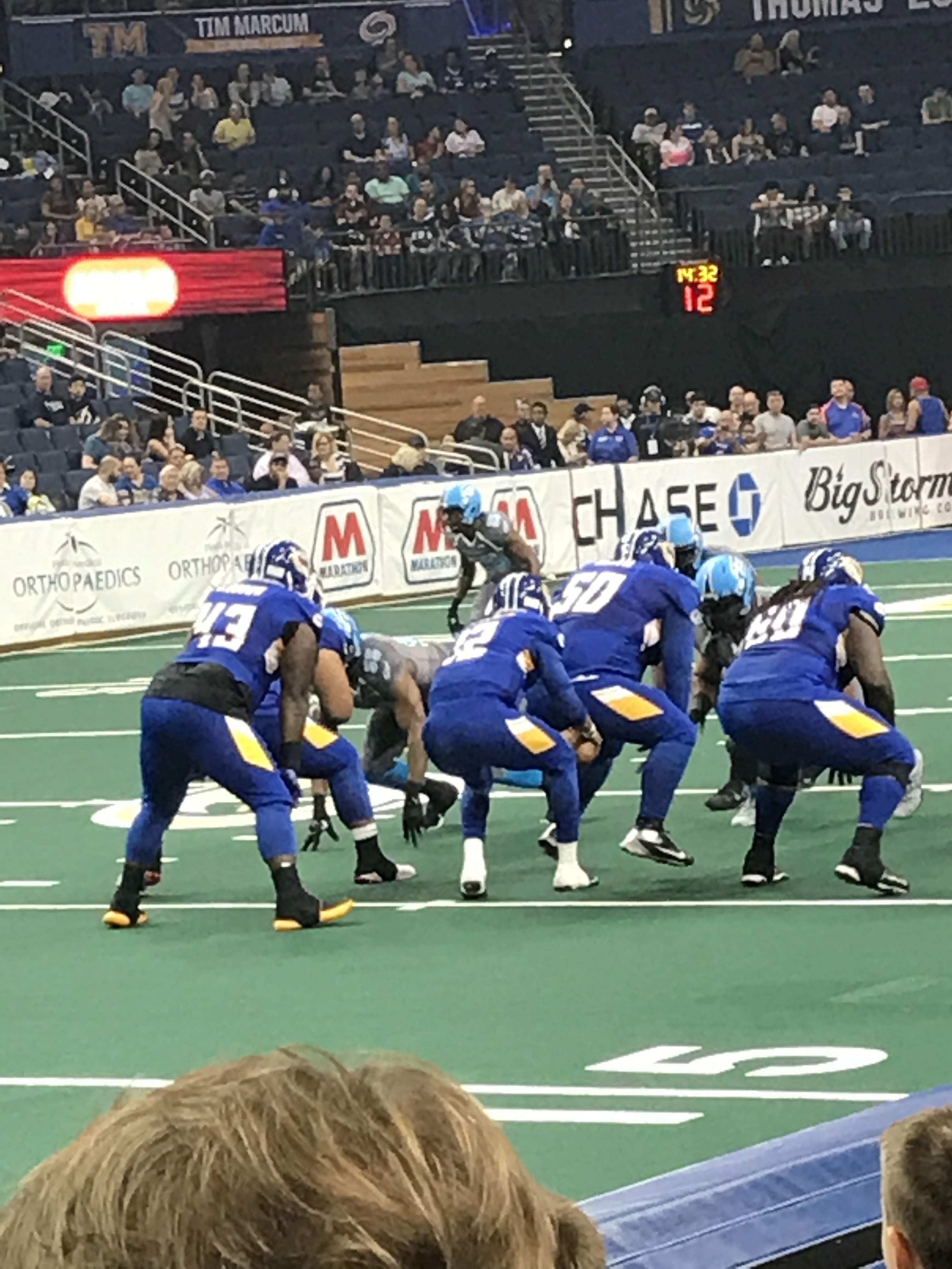 John Brown, Jeremiah Warren, Randy Hippeard, Raymond McNeil and Dave Lefotu